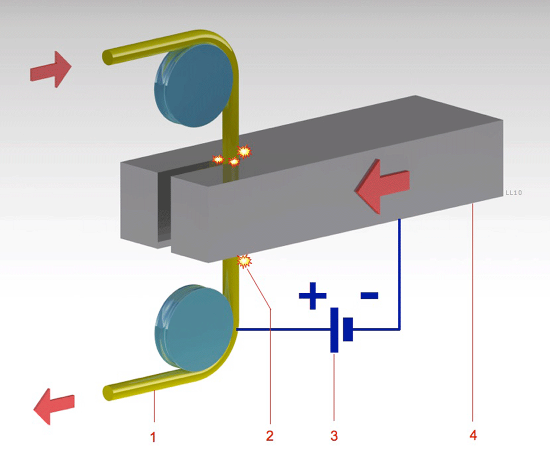 Wire erosion principle drawing. 1 Wire. 2 Electrical discharge erosion (Electric arc). 3 Electrical potential. 4 Workpiece.